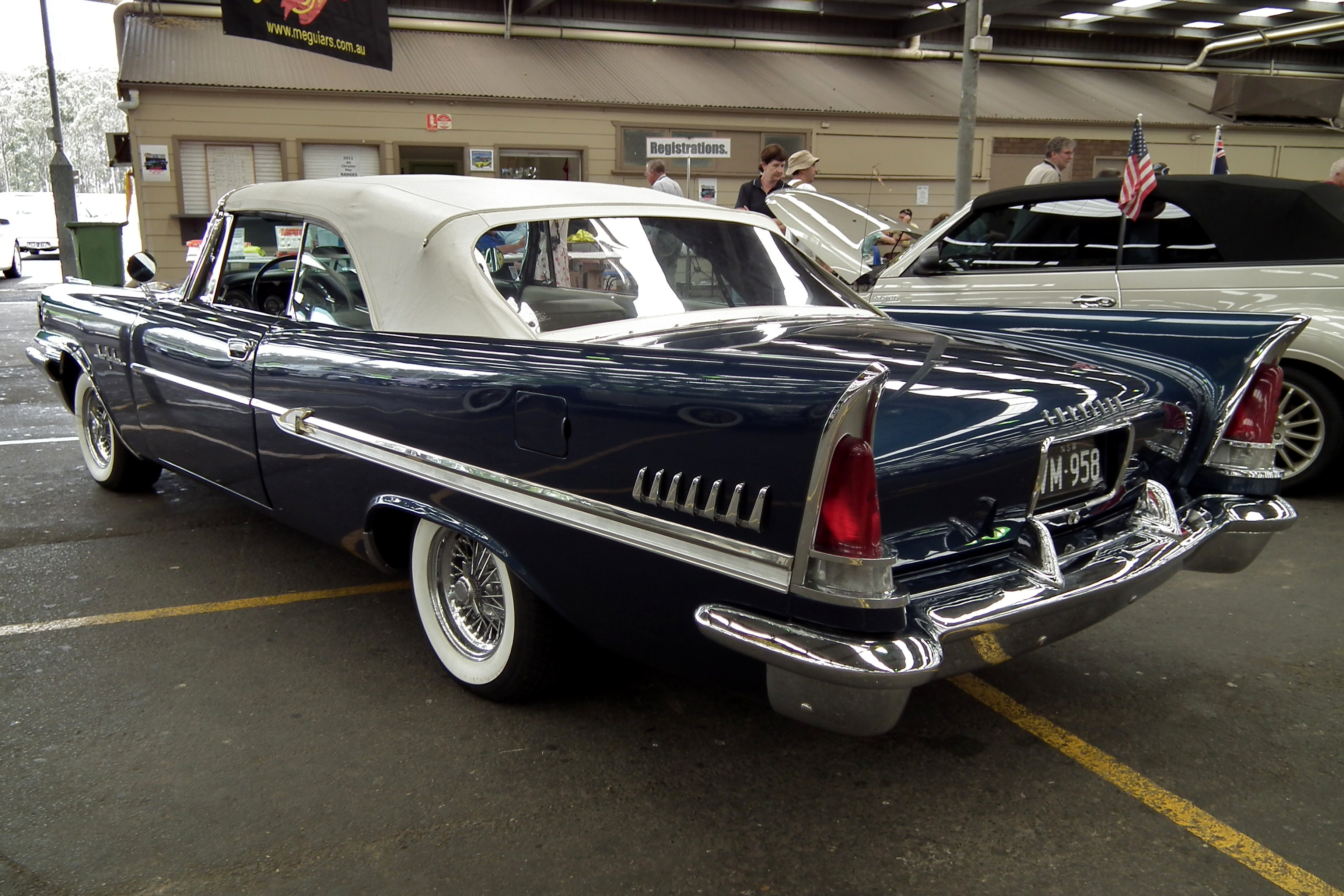 1958 Chrysler New Yorker convertible. Taken at the 2011 New South Wales All Chrysler Day, held at Fairfield Showground, Prairiewood, Sydney.